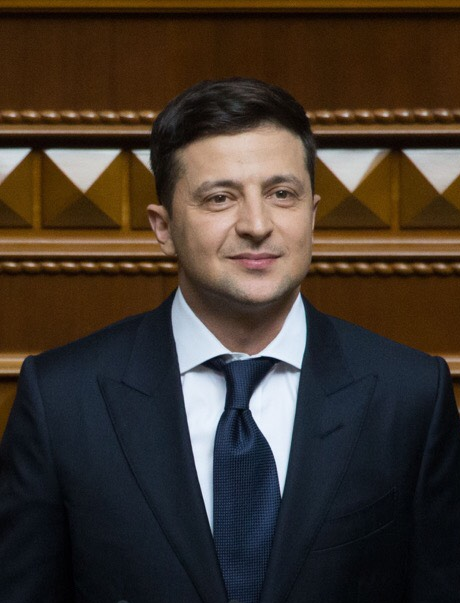 Volodymyr Zelensky presidential inauguration, 20th May 2019